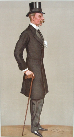 Caricature of Lieutenant-Colonel Sir Derek William George Keppel GCVO KCB CMG CIE VD.